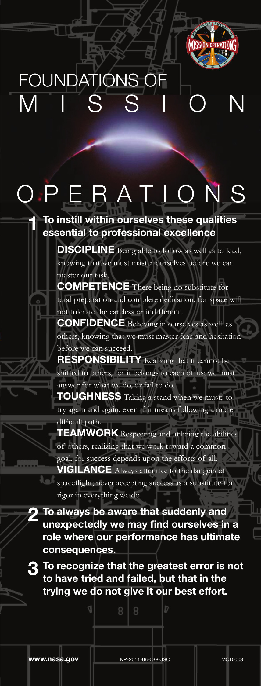 Written by, these guiding principles have served NASA Mission Control since the 1960s. 1. To instill within ourselves these qualities essential to professional excellence: DISCIPLINE – Being able to follow as well as to lead, knowing that we must master ourselves before we can master our task. COMPETENCE – There being no substitute for total preparation and complete dedication, for space will not tolerate the careless or indifferent. CONFIDENCE – Believing in ourselves as well as others, knowing that we must master fear and hesitation before we can succeed. RESPONSIBILITY – Realizing that it cannot be shifted to others, for it belongs to each of us; we must answer for what we do — or fail to do. TOUGHNESS – Taking a stand when we must; to try again, even if it means following a more difficult path. TEAMWORK – Respecting and utilizing the abilities of others, realizing that we work toward a common goal, for success depends upon the efforts of all. 2. To always be aware that suddenly and unexpectedly we may find ourselves in a role where our performance has ultimate consequences. 3. To recognize that the greatest error is not to have tried and failed, but that in the trying we do not give it our best effort.